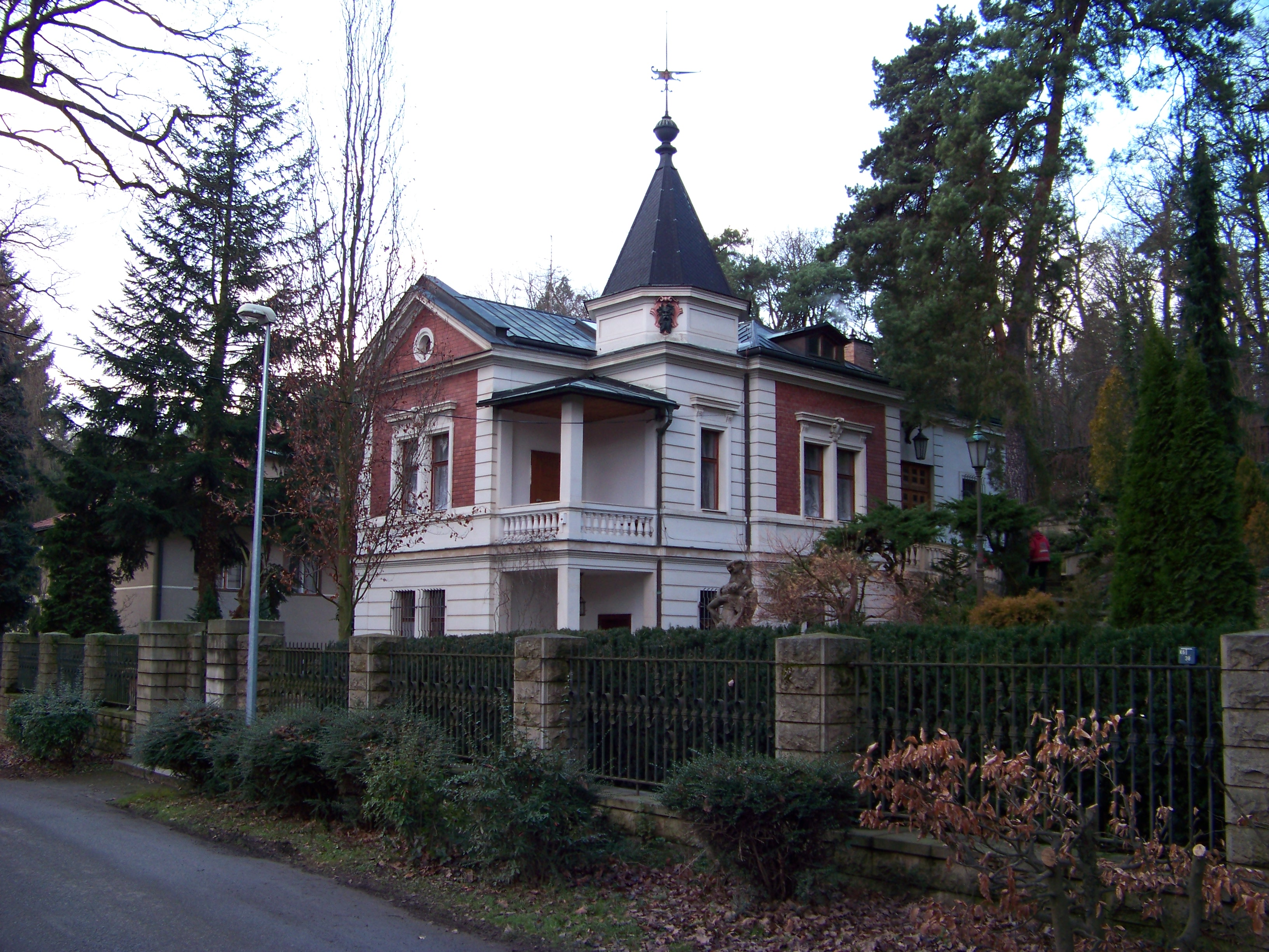 Prague-Hodkovičky, the Czech Republic. Zátiší, V lučinách street, a villa No 67/9.